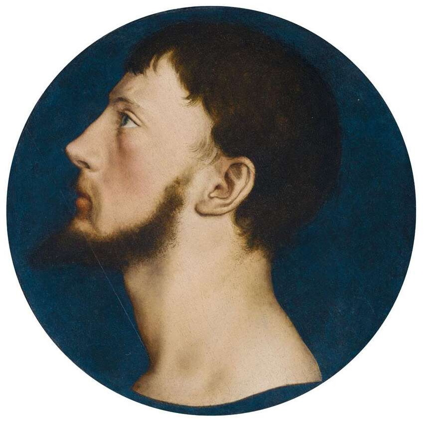 Sir Thomas Wyatt the Younger (1521 - 1554) Oil on circular panel: Diameter 12 5/8 in. (32 cm.) Painted circa 1540-42 Provenance: Presumably commissioned by sitter’s father Sir Thomas Wyatt Senior (1503 - 1542), Thence likely by descent to sitter and dispersed with his property after his execution in 1554; With J. Tremlett Esq. by whom sold; Christie’s, 22 November 1974, lot 152 Christopher Gibbs Esq.